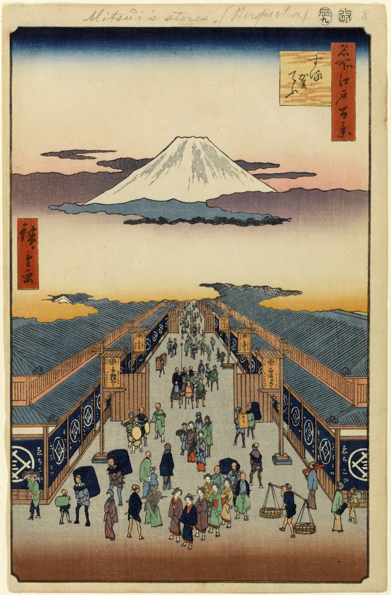 Part of the series One Hundred Famous Views of Edo, no. 008, part 1: Spring.